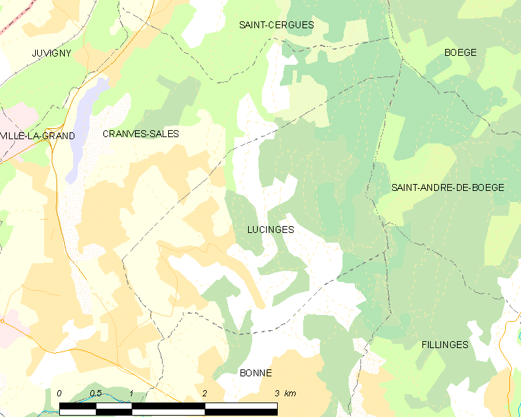 Map of French municipality Lucinges